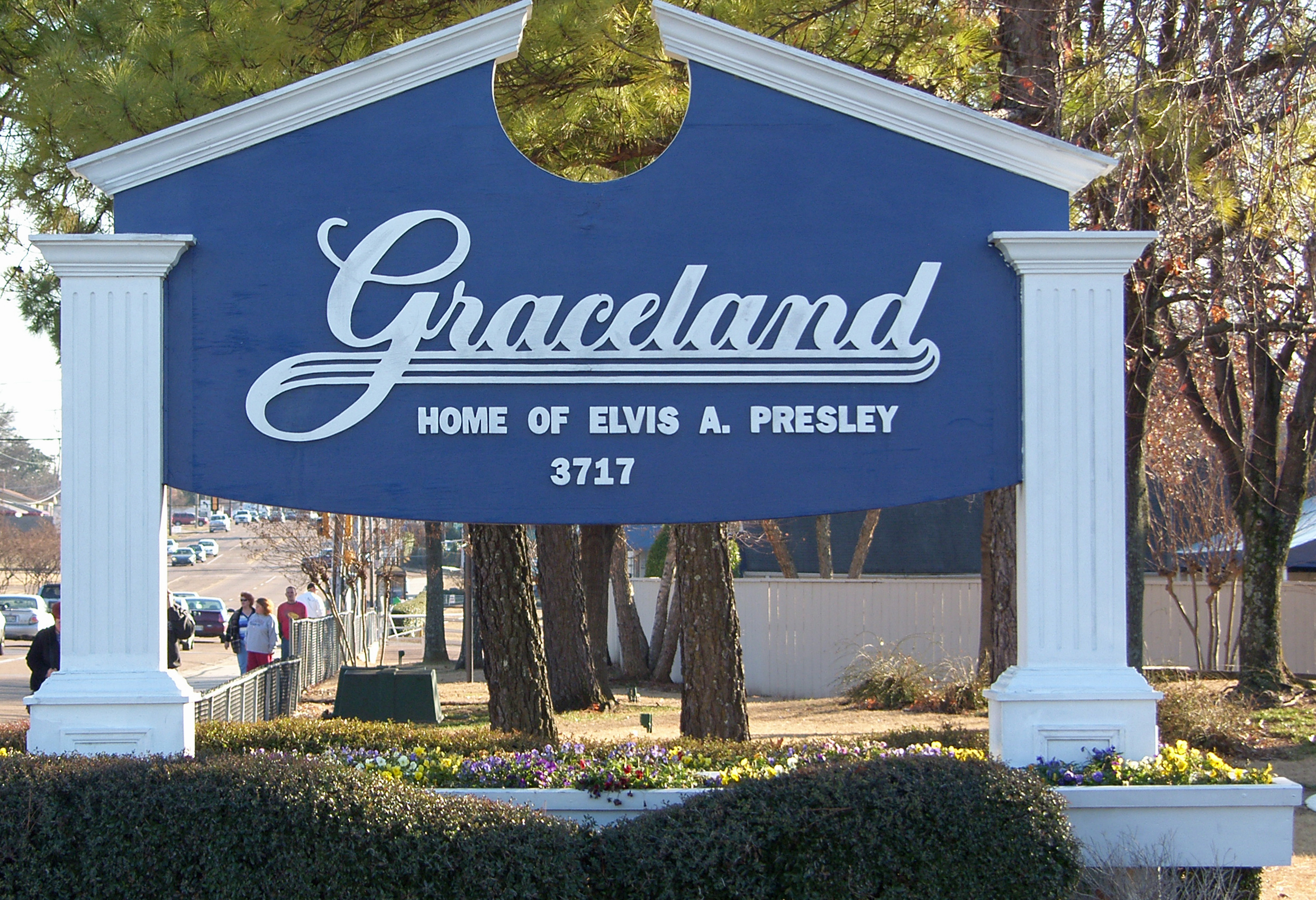 Sign near Graceland